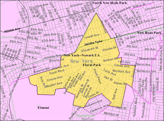 U.S. Census 2000 reference map for Floral Park, New York